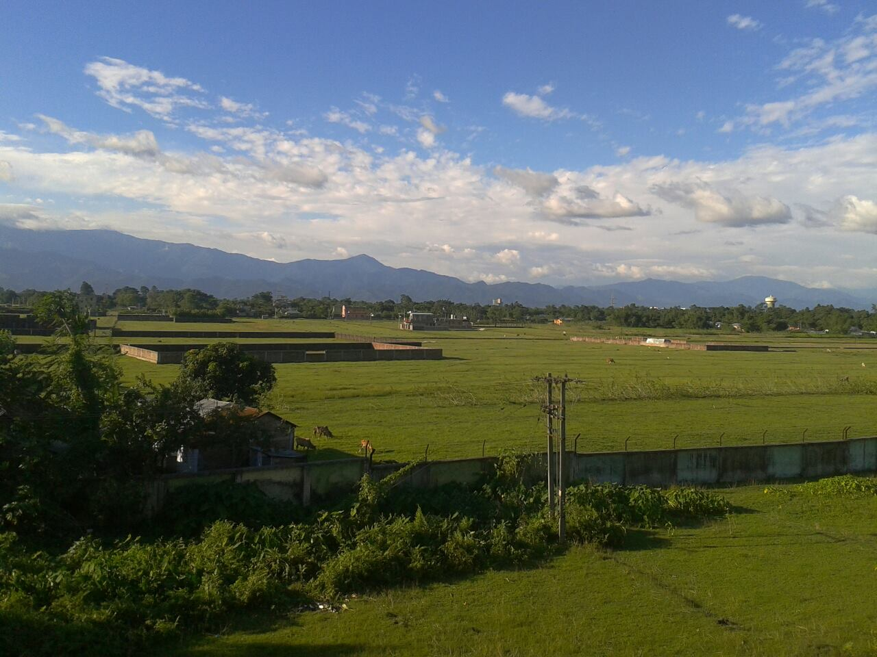 taken from junior boys hostel